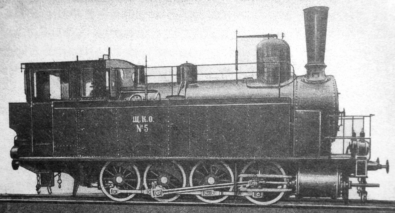 Russian tank loc type 76 by Kolomna Works